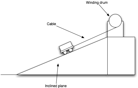 Author: Dan Crow